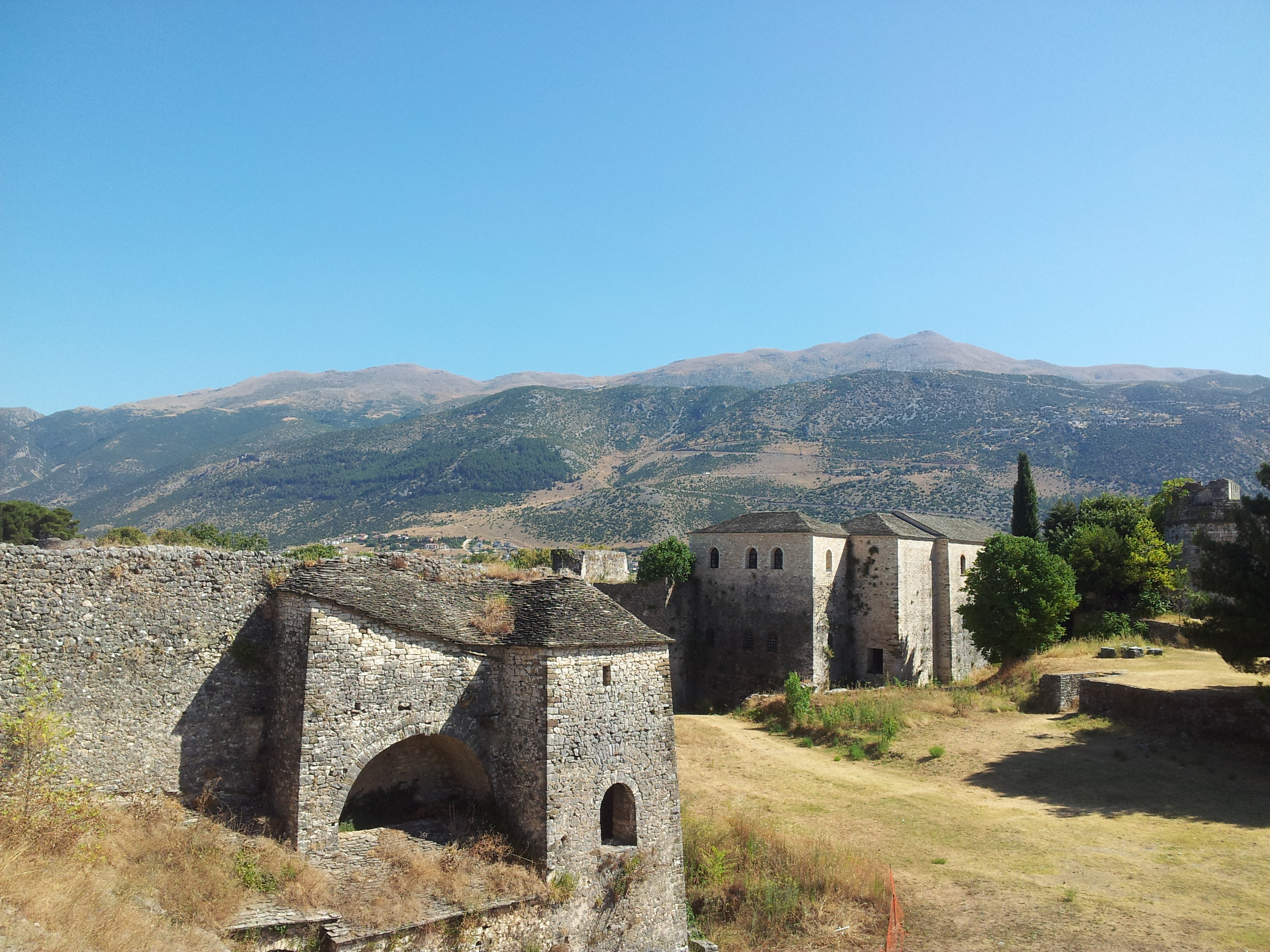 Walls of Ioannina Castle (as seen from the inside), August 2011.